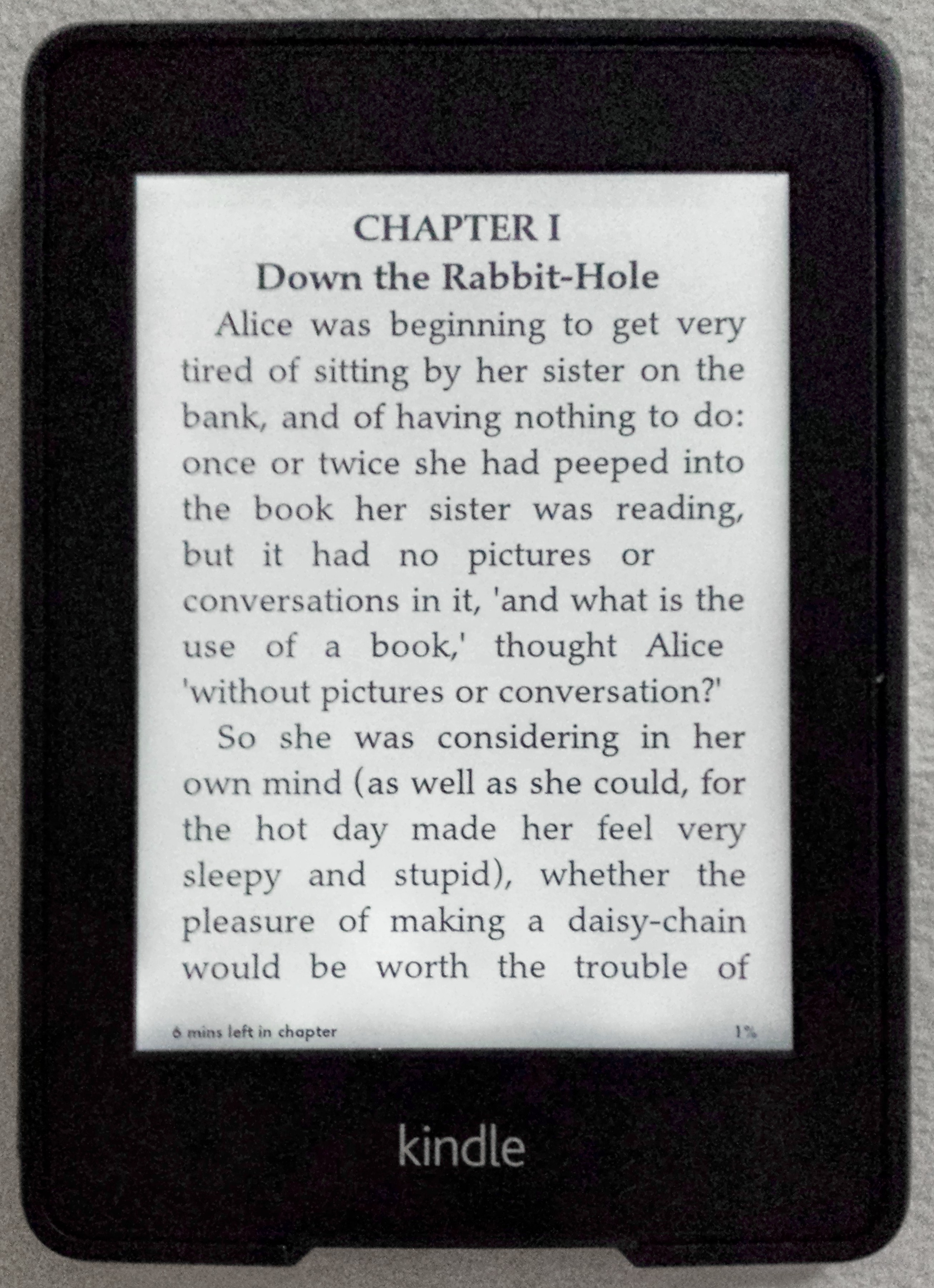 Paperwhite showing the copyright-free Alice in Wonderland